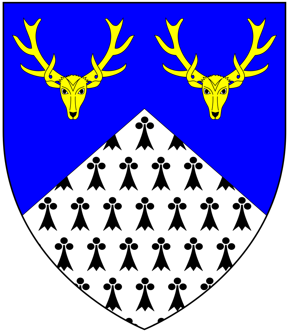 Arms of Arscott of Devon: Per chevron azure and ermine in chief two buck's heads cabossed or (Vivian, Heraldic Visitations of Devon, Arscott of Dunsland, p.16)